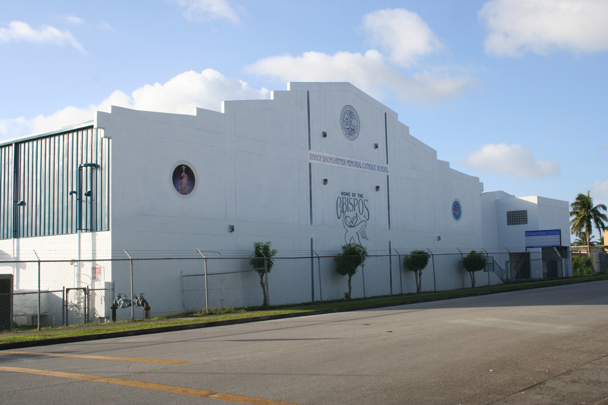 In the middle of Sinajana is Bishop Baumgartner Memorial School named after the Catholic bishop who was instrumental in laying the foundation for Guam's Catholic school education post-WWII. Fanai Castro/Guampedia